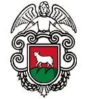 The coat of arms of the town of Vsetin.